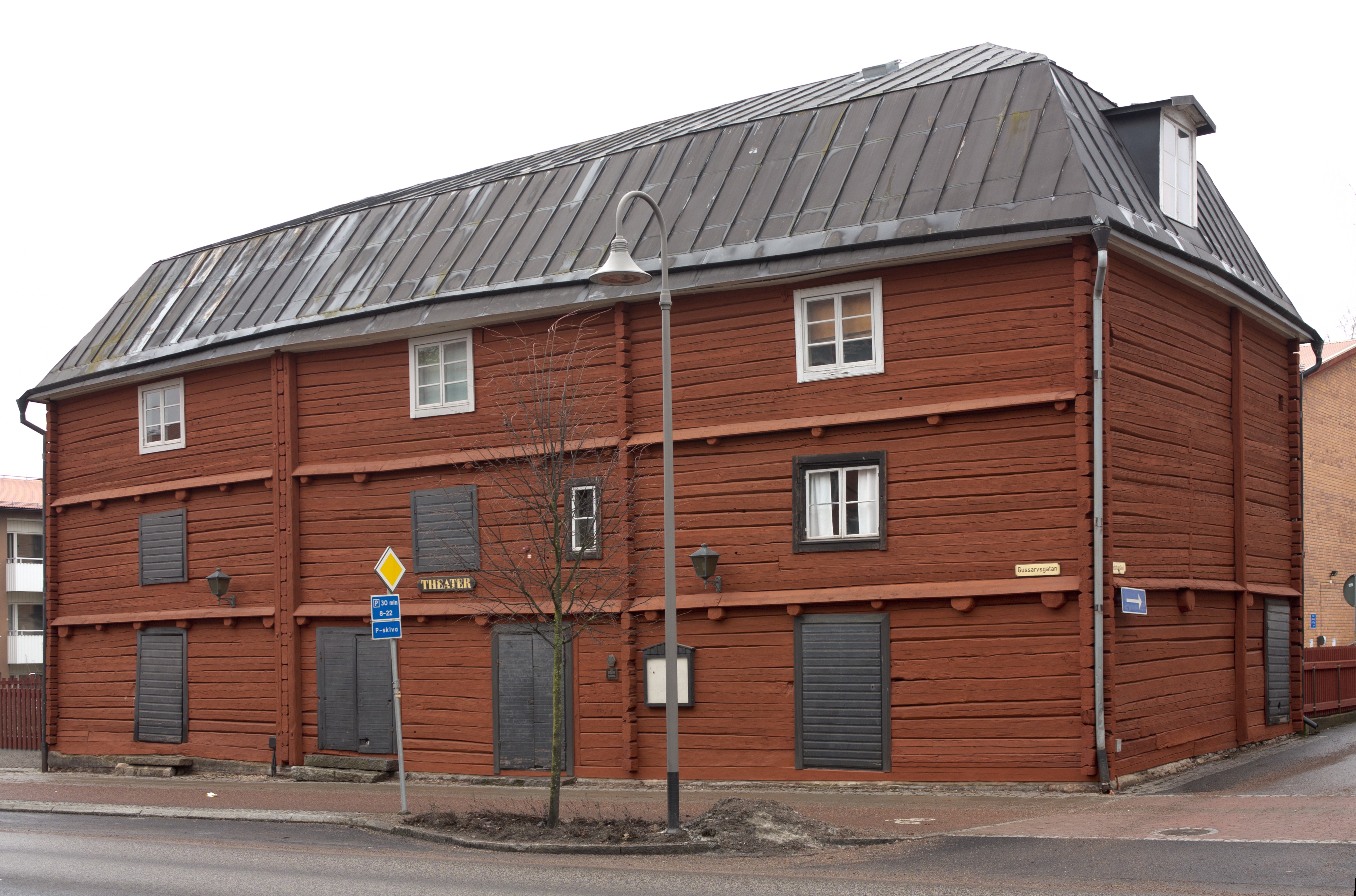 Old theatre of Hedemora. Hedemora, Sweden